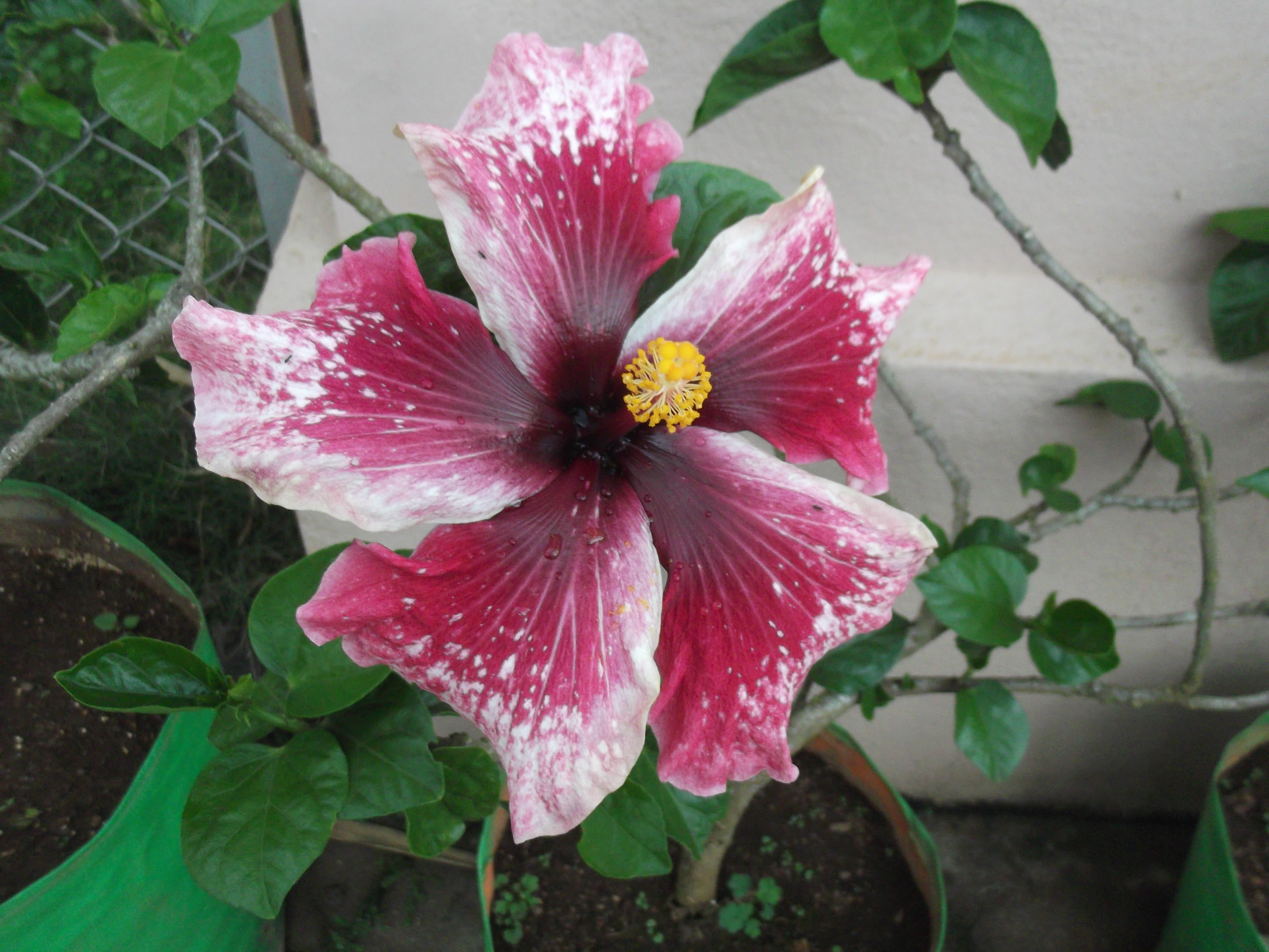 Shrubs,flowers dark purple with pale border and red center